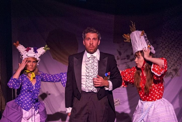 2012 performance of Louis Nowra's 1992 play Così at Urban Stages, Manhattan, New York City